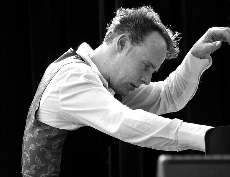 Jef Neve at Aarhus Jazz Festival 2012, Aarhus Denmark